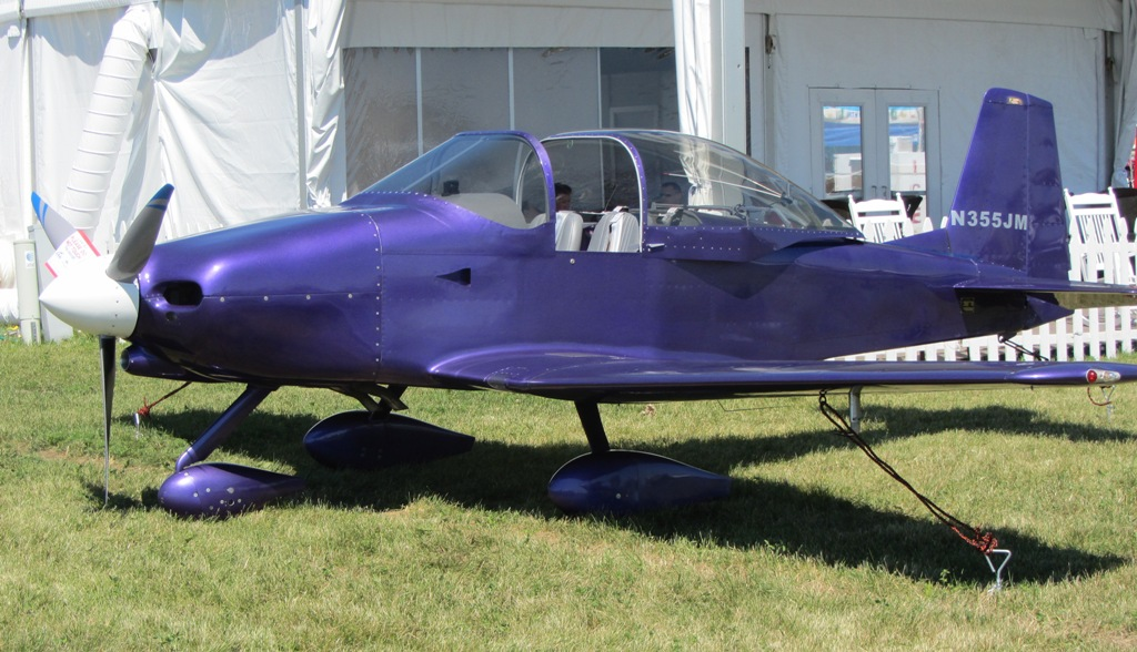 Mustang II Trigear